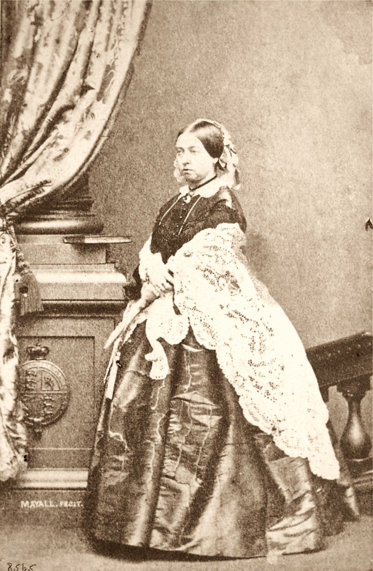 Portrait of Queen Victoria